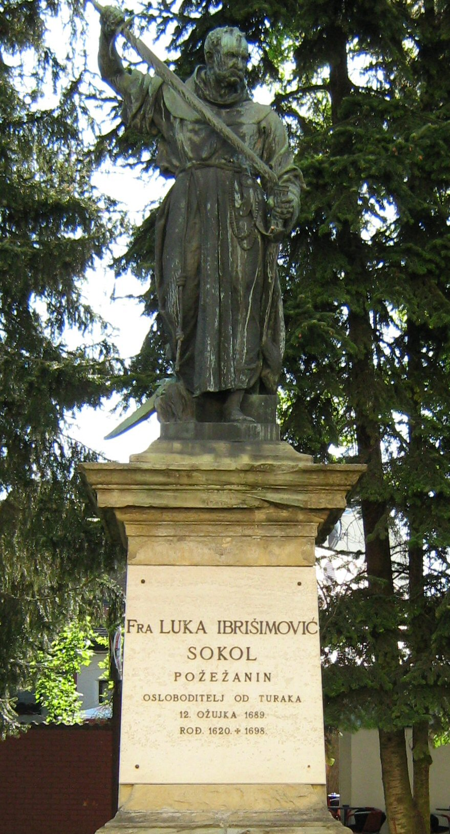 Monument to Luka Ibrisimovic-Sokol, author Djuro Kiš. Location: St. Theresa of Aville Square in Pozega, Croatia.